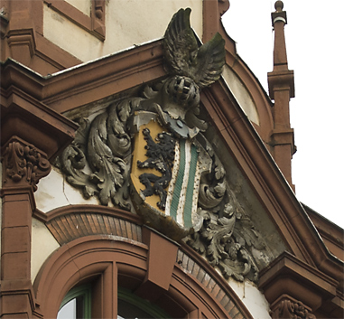 detail: coat of Arms at front of school building named Gymnasium Dreikoenigschule Dresden